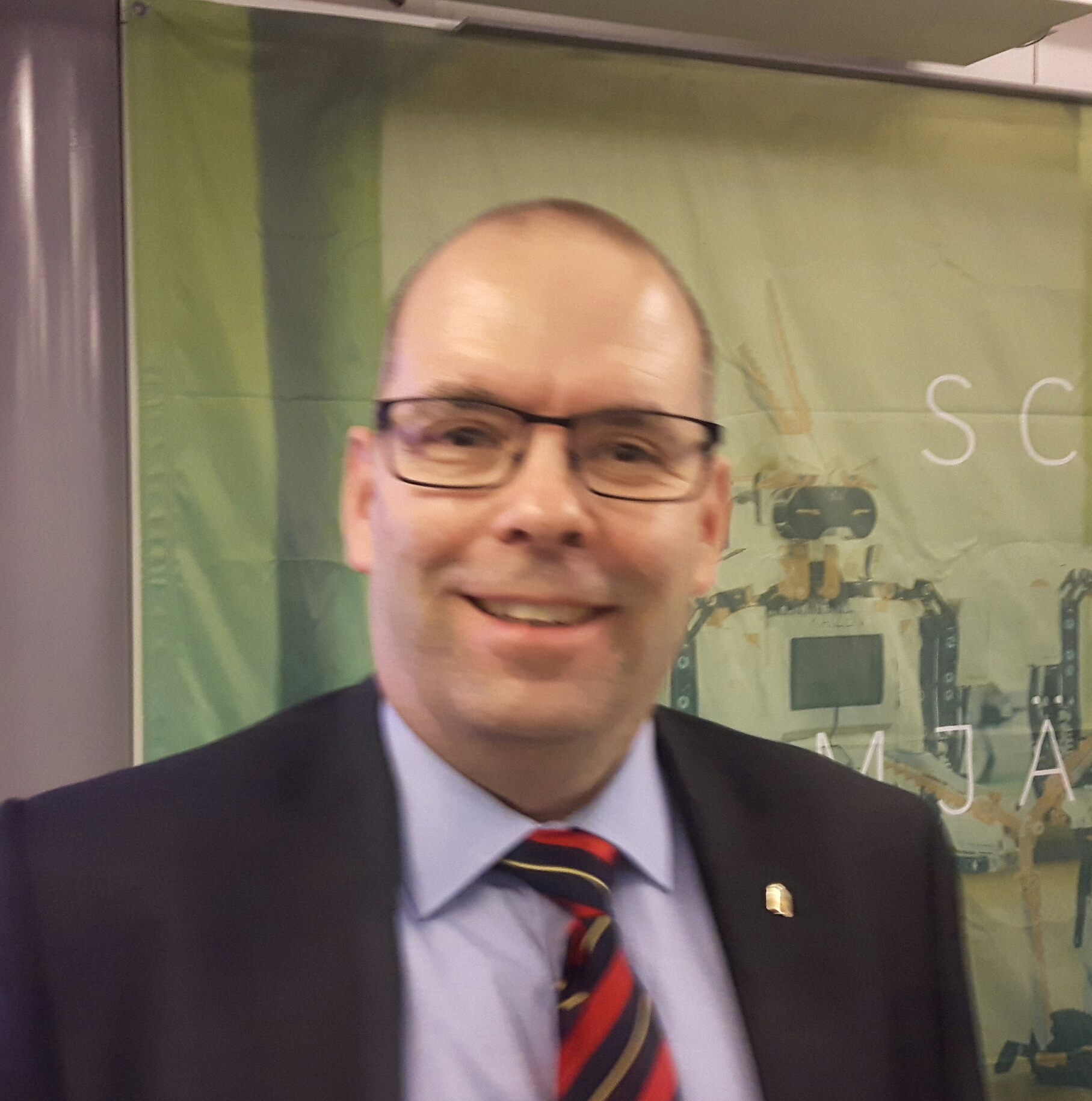 Carl Fredrik Graf, county governor, Östergötland, Sweden.